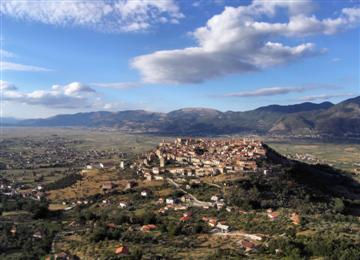 Image of Teggiano (SA) - Italy